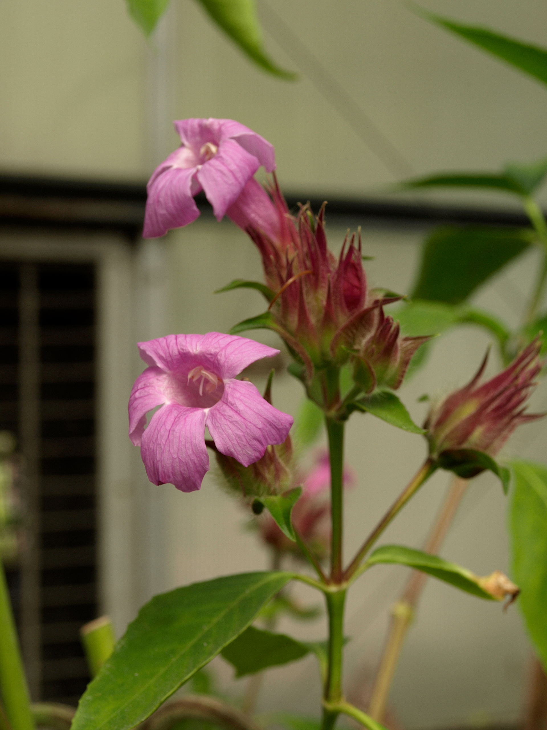 Suessenguthia trochilophila Biological Sciences Greenhouses, Florida International University, Miami, Florida, USA.